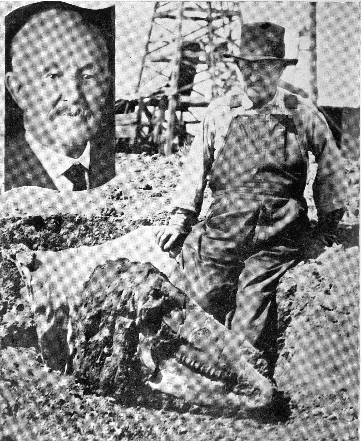 Charles H. Sternberg collecting a fossil horse skull at the McKittrick oil field, California